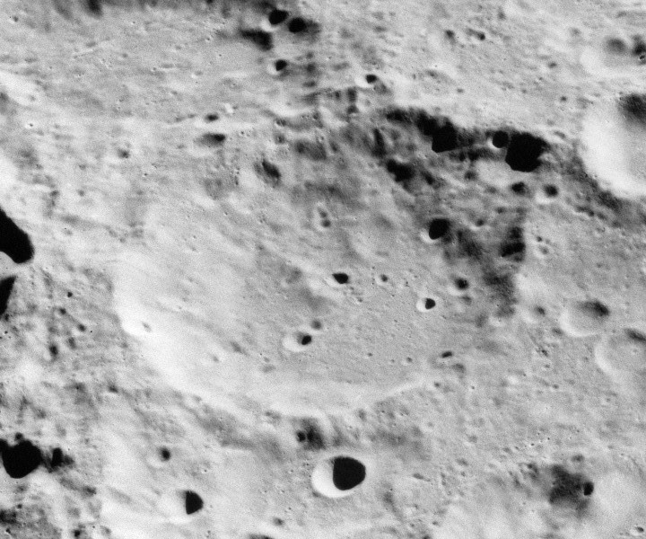 Oblique view of Buisson, on the far side of the moon. North is in lower right.